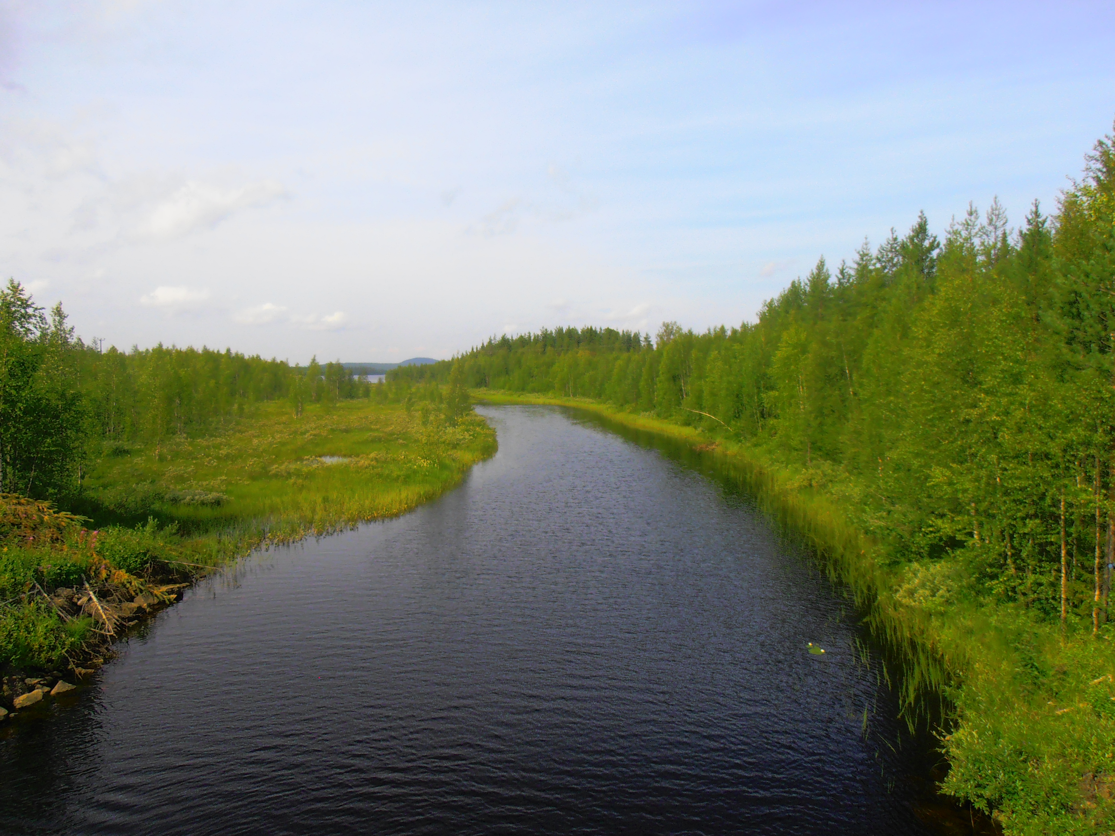 The Bönälven, Gällivare